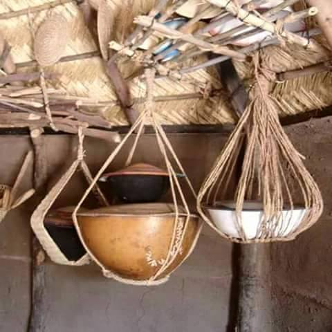 راقية ; عبارة عن ثثلاجة مساكين